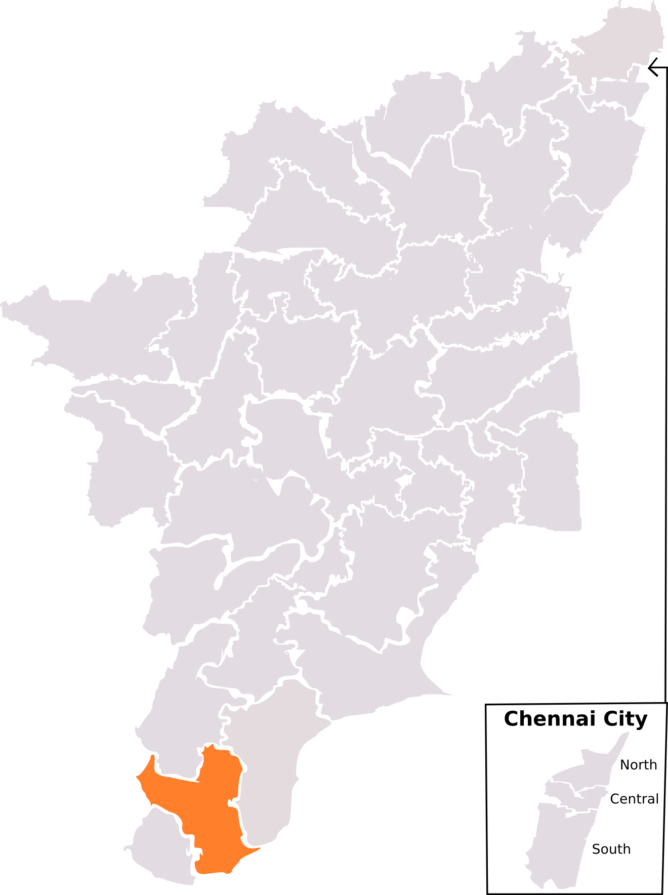 Lok Sabha Election map for Tamil Nadu. Map is drawn using Inkscape and is based on ECI website.